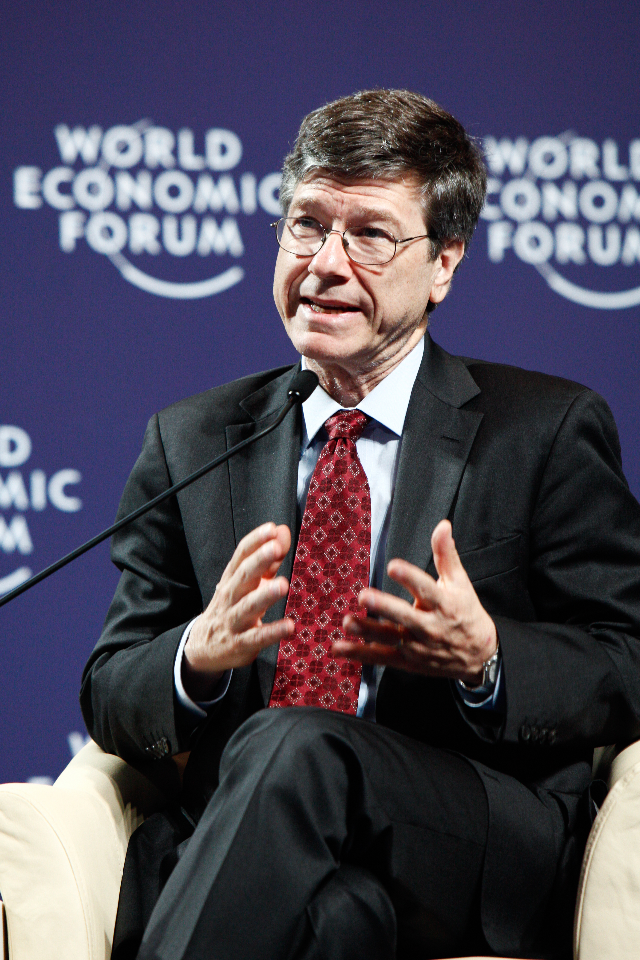 JAKARTA/INDONESIA, 13JUN11 - Jeffrey D. Sachs, Director, The Earth Institute, Columbia University and Special Adviser to the UN Secretary-General on the Millennium Development Goals, USA, captured during the Inclusive Asia: Reinvigorating the Millennium Development Goals at World Economic Forum on East Asia in Jakarta, Indonesia, June 13, 2011. Copyright World Economic Forum ( by Sikarin Thanachaiary